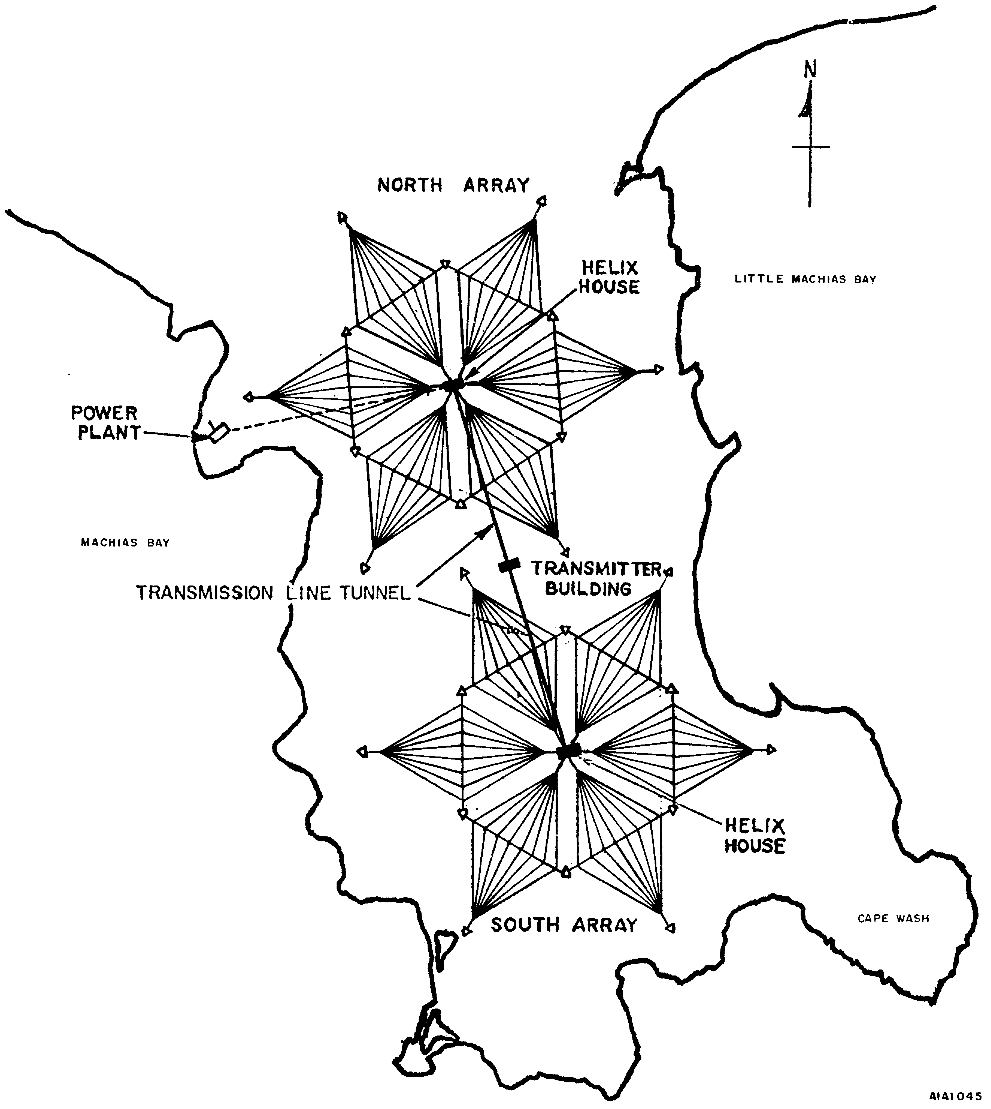 Diagram of the antenna array at the U.S. Navy Cutler VLF transmitter facility at Cutler, Maine. It transmits operational orders one-way to submerged U.S. submarines worldwide at a frequency of 24 kHz. With a transmitter power of 1.8 megawatts, it is known as the most powerful radio transmitter in the world. It consists of two identical antenna arrays called the 'North array' and 'South array', driven from a transmitter building between them. This type of antenna is called a trideco or umbrella antenna, a form of capacitively top-loaded electrically-short monopole antenna. Each array consists of a hexagonal pattern of 13 vertical steel masts attached at the top to a system of 6 diamond-shaped fans of cables suspended above the ground. The vertical masts actually radiate the VLF radio waves, while the top cables form a large capacitor with the ground, which serves to increase the efficiency of the antenna. Under each mast there is also a system of cables suspended a few feet above the ground radiating from the mast base, called a counterpoise (not shown) which functions as the other plate of the capacitor. Each central mast is 304 m (997.5 ft) high, and has a 'helix house' at its base, which contains massive coils of wire needed to match the antenna to the transmission line, which travels through an underground tunnel from the transmitter.